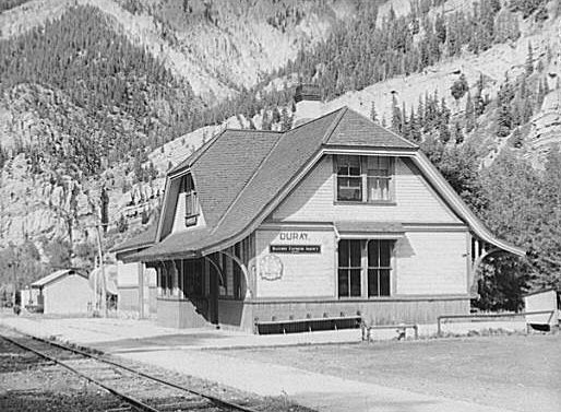 Railroad station of the D.& R.G.W. Railroad at Ouray, Colorado. This narrow gauge line formerly had passenger service but now is confined to freight service.